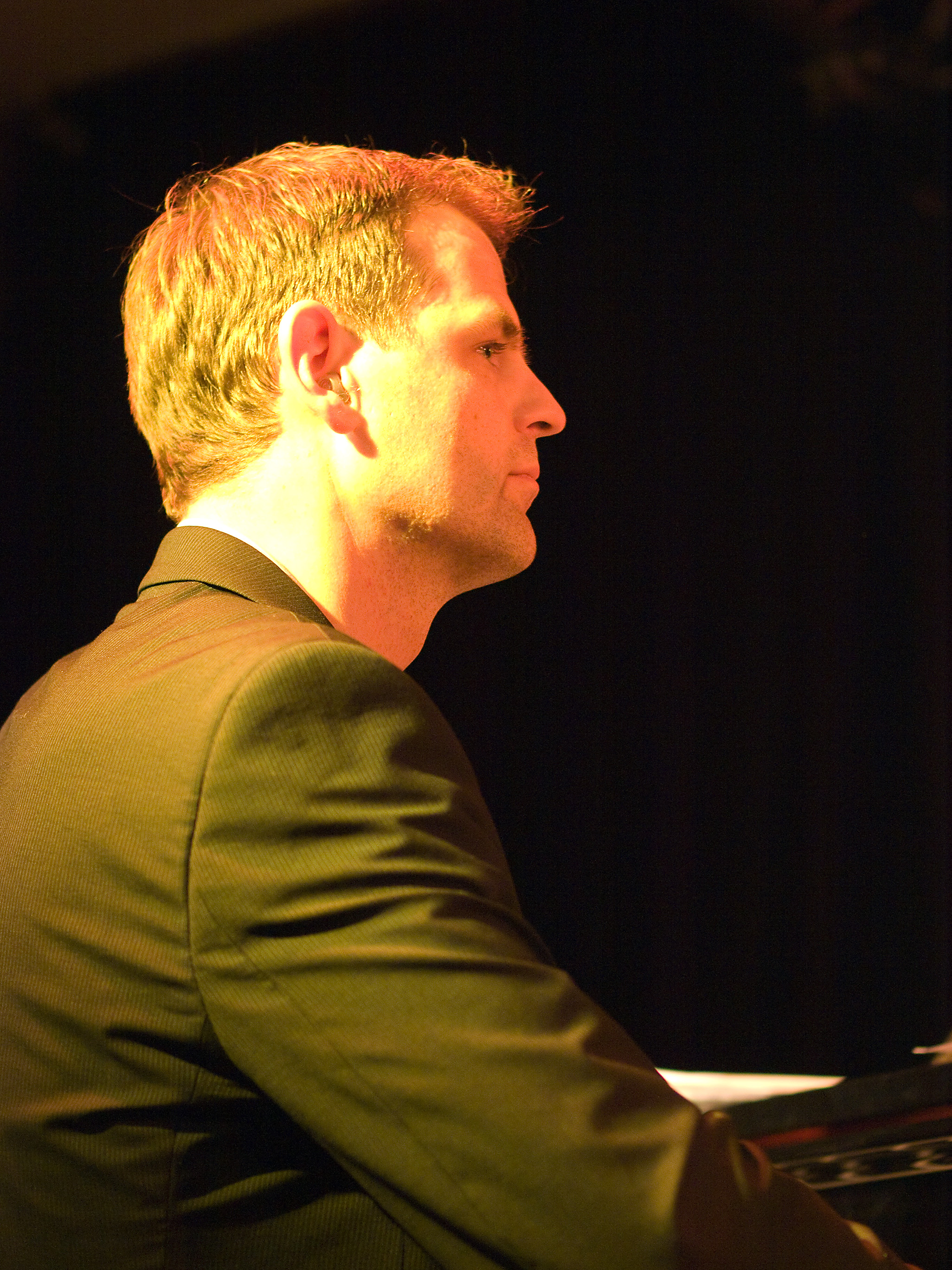 Christian Doepke, Jazz pianist, Picture taken in Jazz Club Unterfahrt, Munich/Bavaria